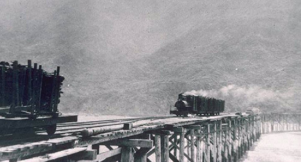 Logging train crossing the Mattole River mouth, circa 1900